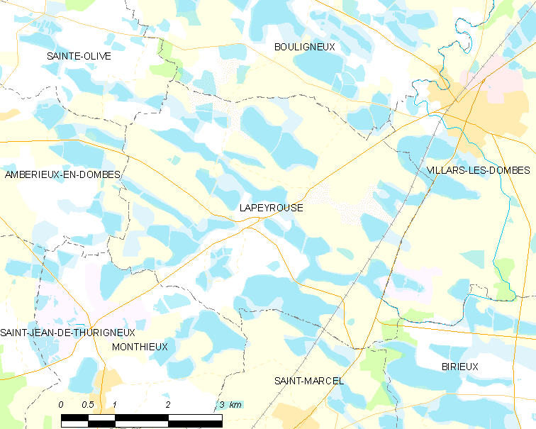 Map of French commune: Lapeyrouse Map commune FR insee code 01207.png